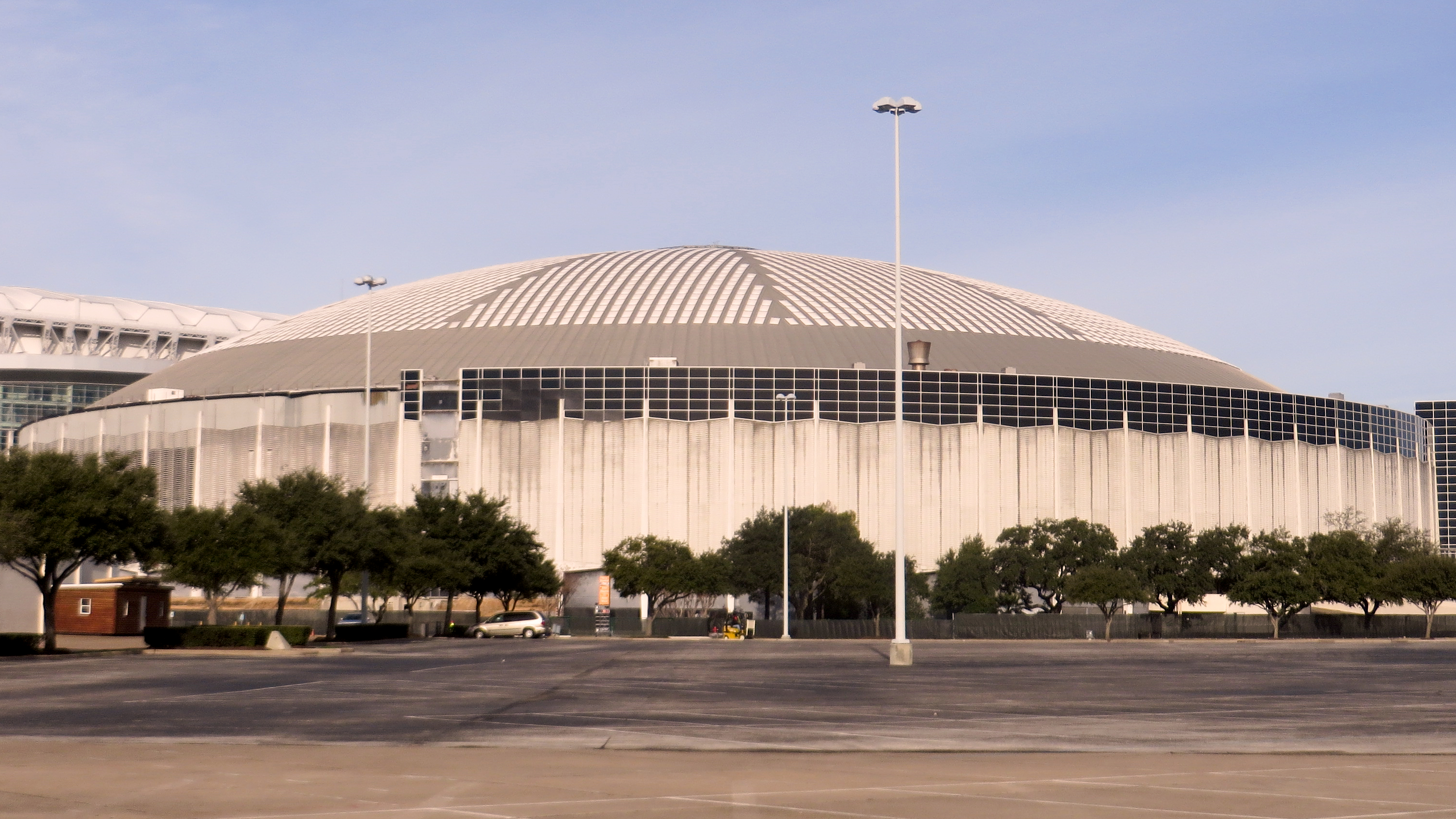 View of the Reliant Astrodome in Houston from a parking lot near Reliant Arena